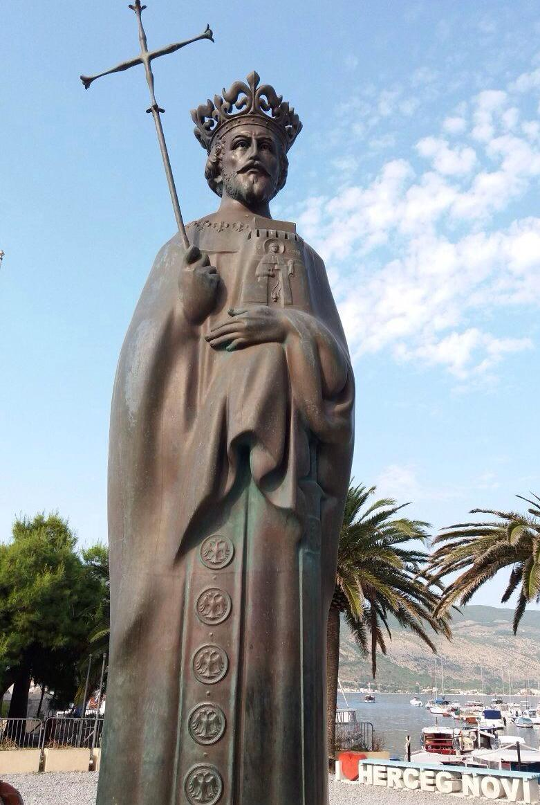 In early 1382, Tvrtko constructed a new fortress in the Bay of Kotor and decided that it should form the basis of a new salt trading center. Initially named after Saint Stephen, the city came to be known as Herceg Novi (meaning "new").